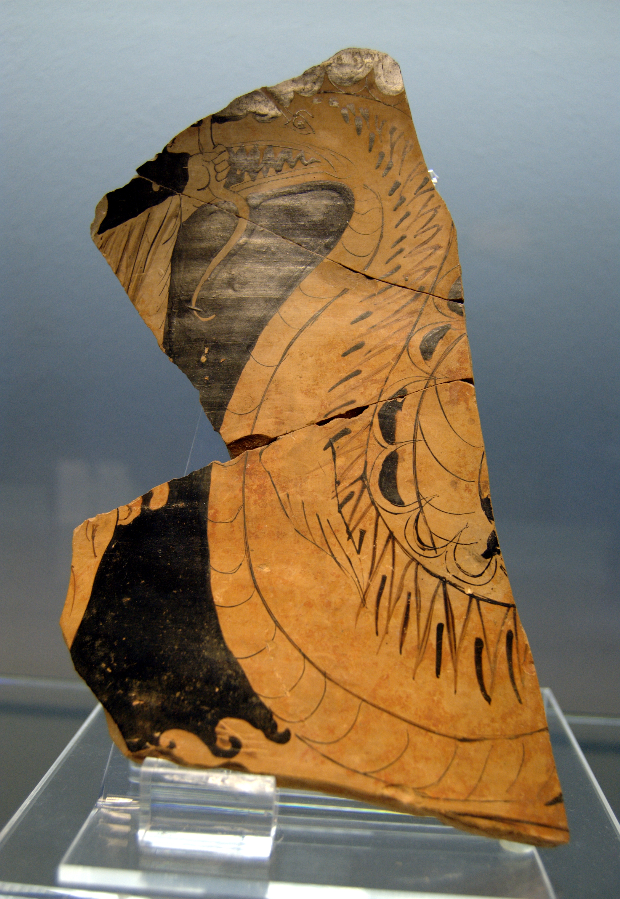 The Trojan sea-monster fighting with Heracles. Fragment of an Campanian red-figure krater (?), ca. 360 BC.